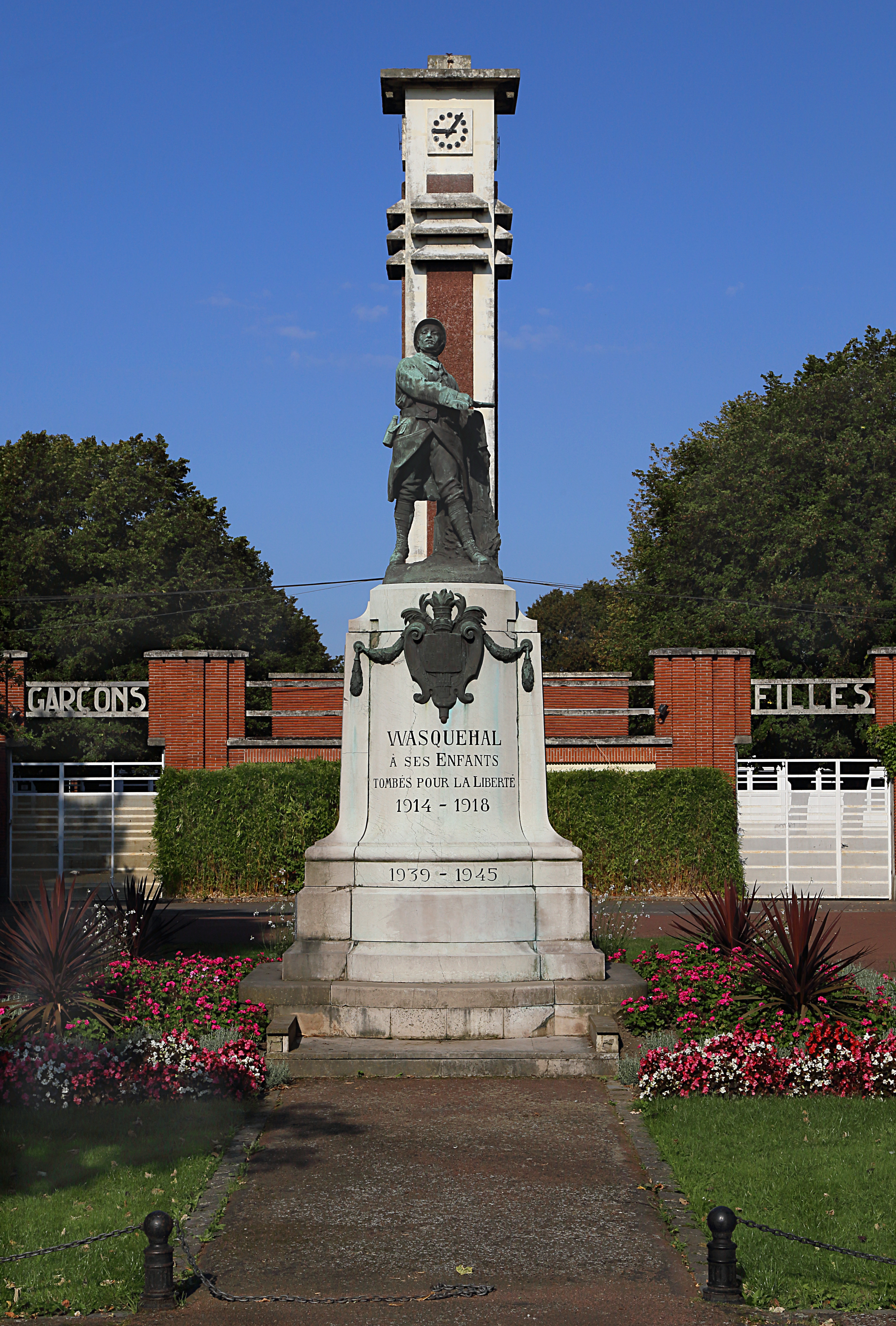 War memorial, rue Delerue in Wasquehal, France.